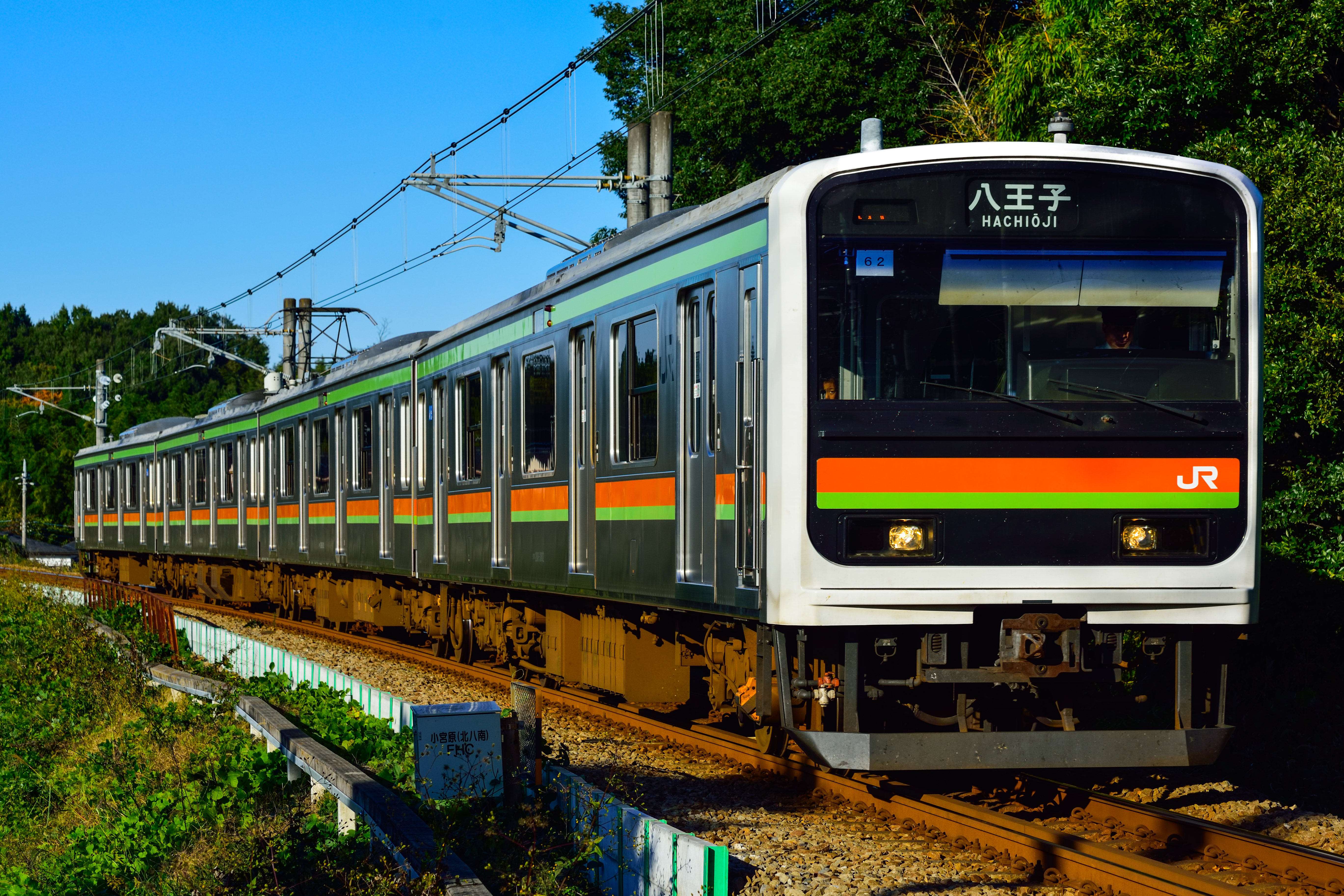 JR East 209-3000 series EMU set 62 between Komiya and Kita-Hachioji stations on the Hachiko Line